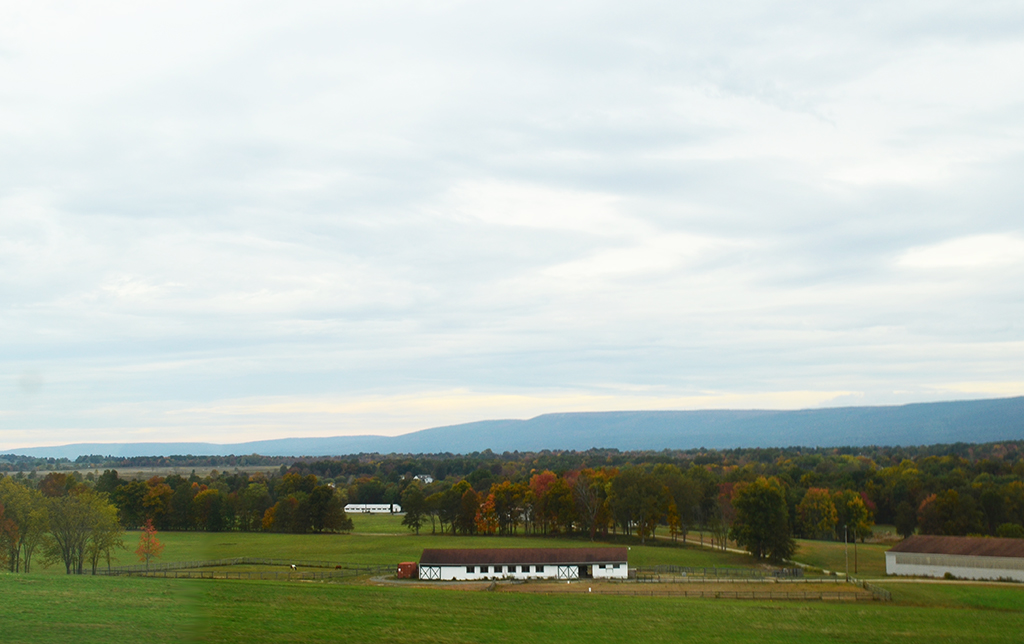 Walstein Childs House, Sand Hill Rd., Wallkill Correctional Facility Wallkill